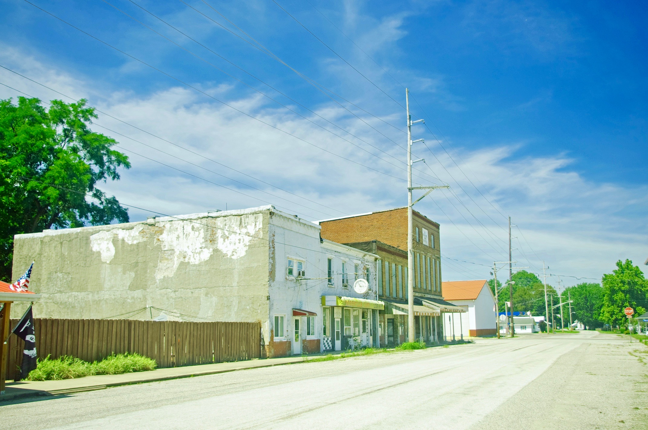 View along Jackson Street in Perrysville, Indiana, United States.